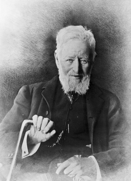 John Tinline (probably John Tinline 1821-1907), photographed by Henry E L Brusewitz, circa 1890, probably in Nelson